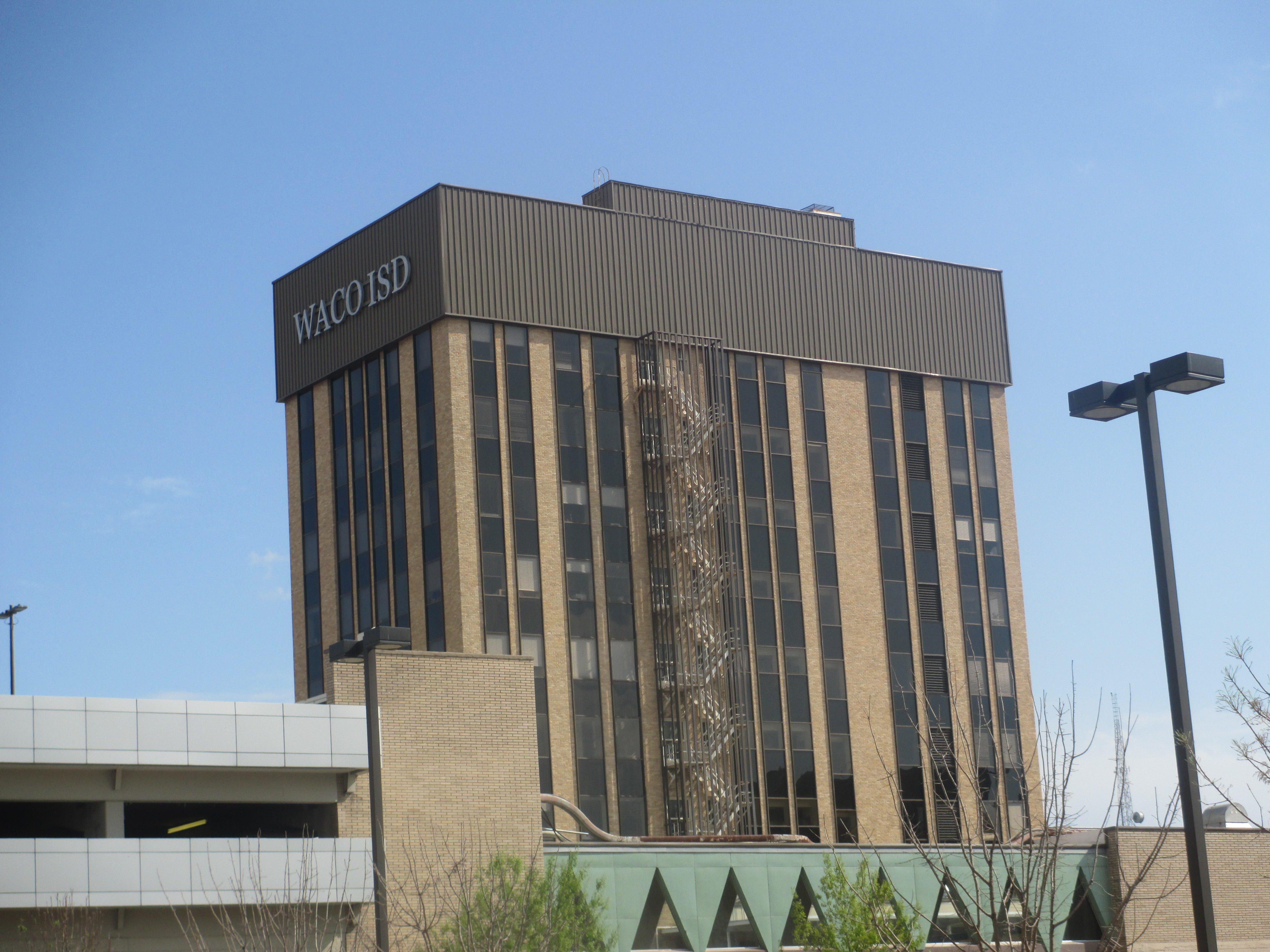 I took photo of WACO ISD Building in Waco, TX, with Canon camera, March 31, 2013. Billy Hathorn (talk) 14:59, 12 April 2013 (UTC)